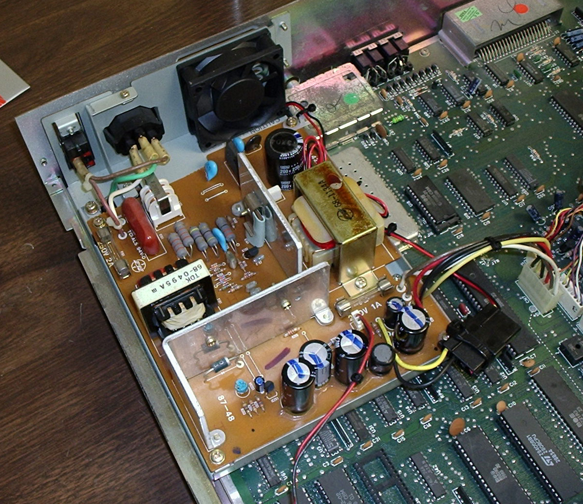 Illustration of the switch-mode power supply of a Commodore 128DCR personal computer, with after market cooling fan attached.